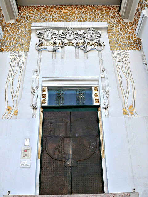 Austria, Vienna, Secession hall